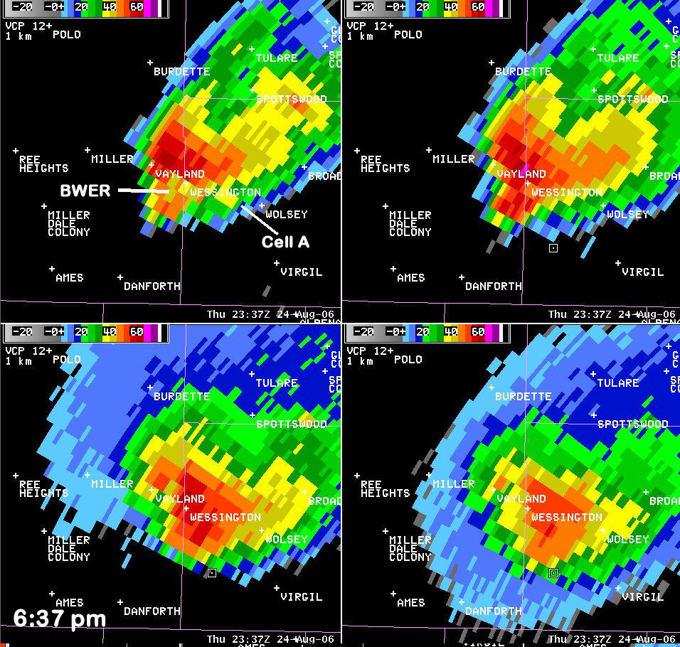 Example of a BWER on reflectivity data of a weather radar in United States. The four images represent the data from four different angles, from lower top left to highest at bottom right, representing four different height in the thunderstorm. The lower angle shows a weaker return where the line indentify the BWER than the ones around it. At higher elevation, this weaker pattern does not appear.